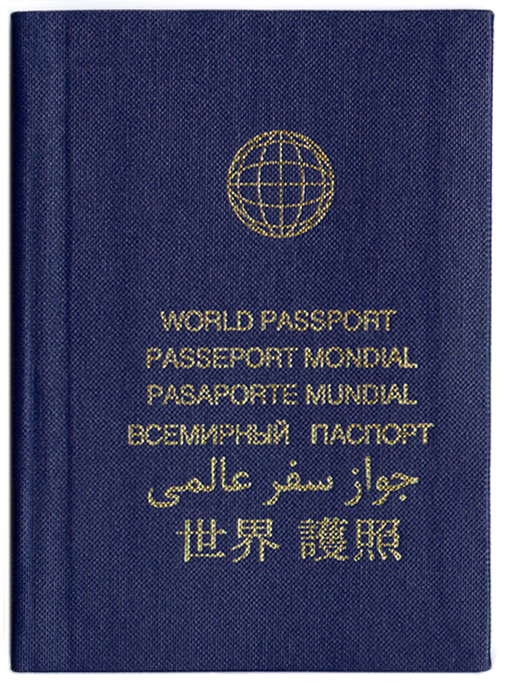 World Passport, (2000 -) mixed media, dimensions variable Courtesy of the artist